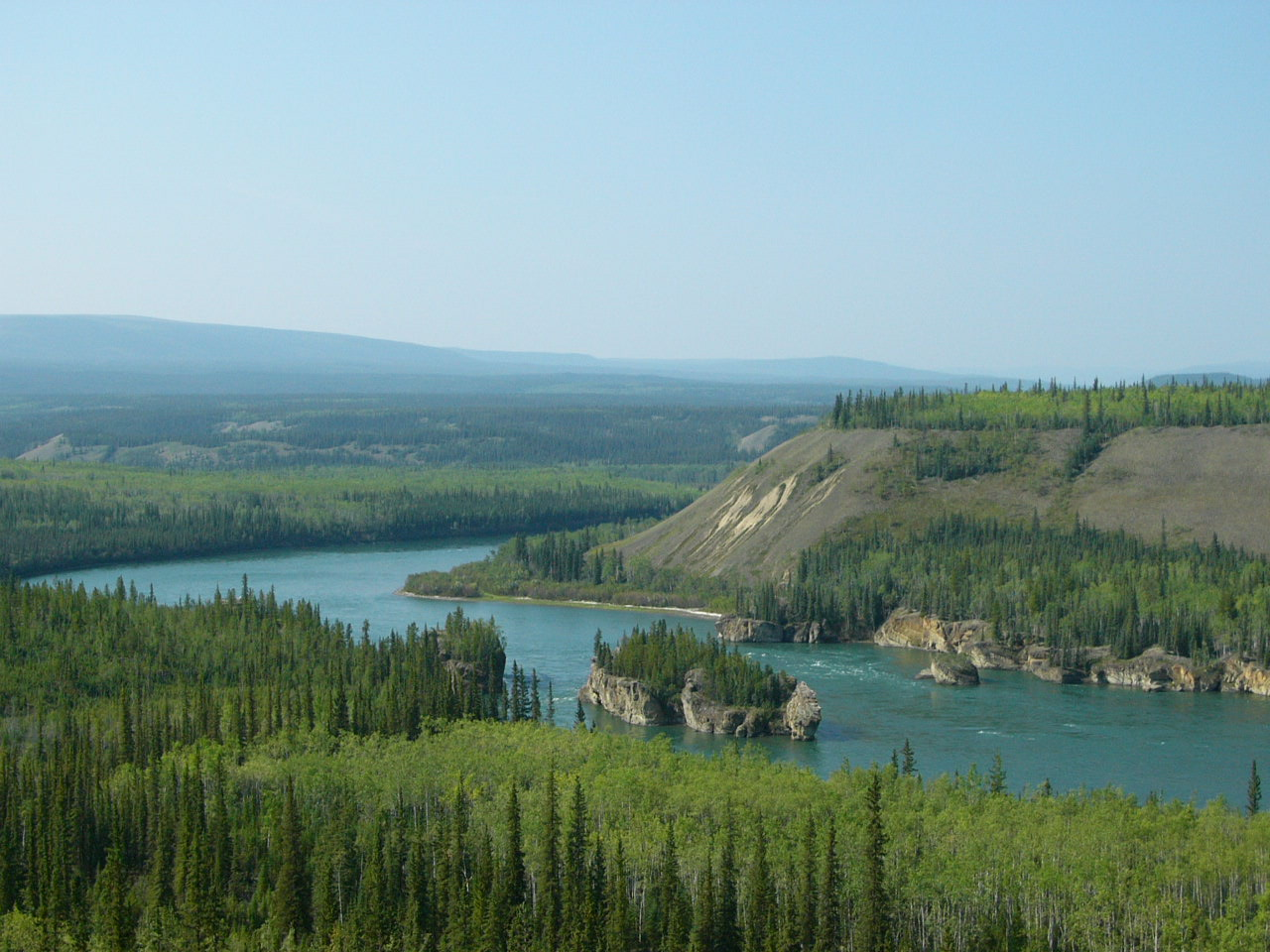 Yufei Yuan on August 14th, 2005.